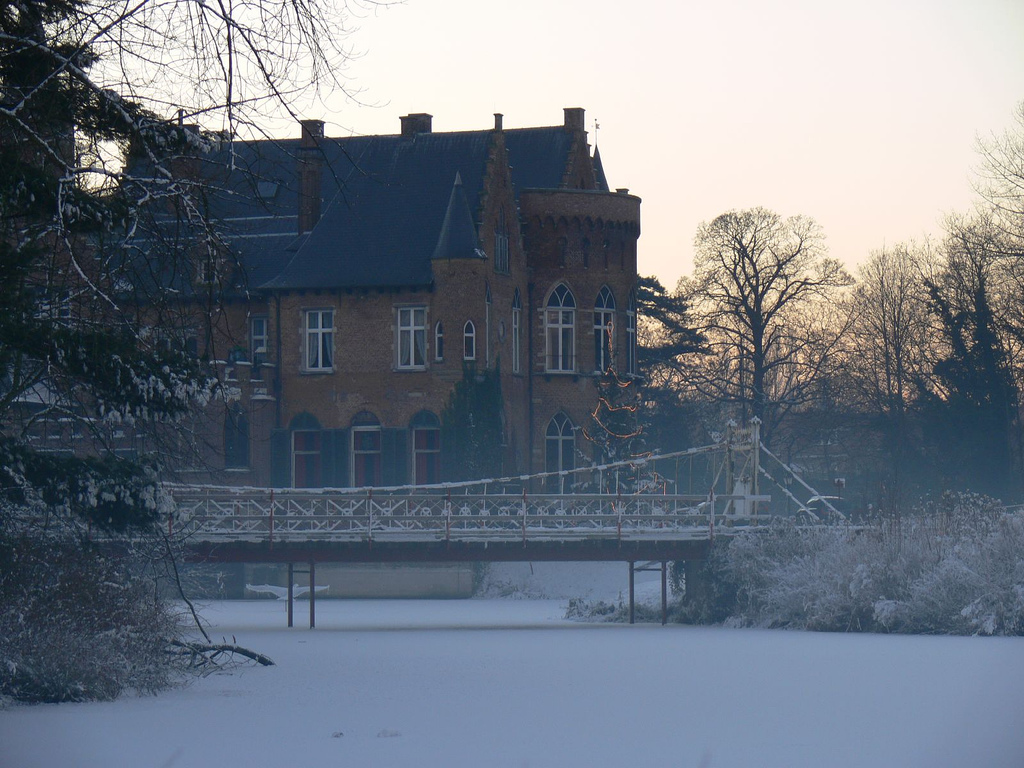 Wissekerke Castle in Bazel, Belgium seen here along with the suspension brindge, one of the oldest in Europe.